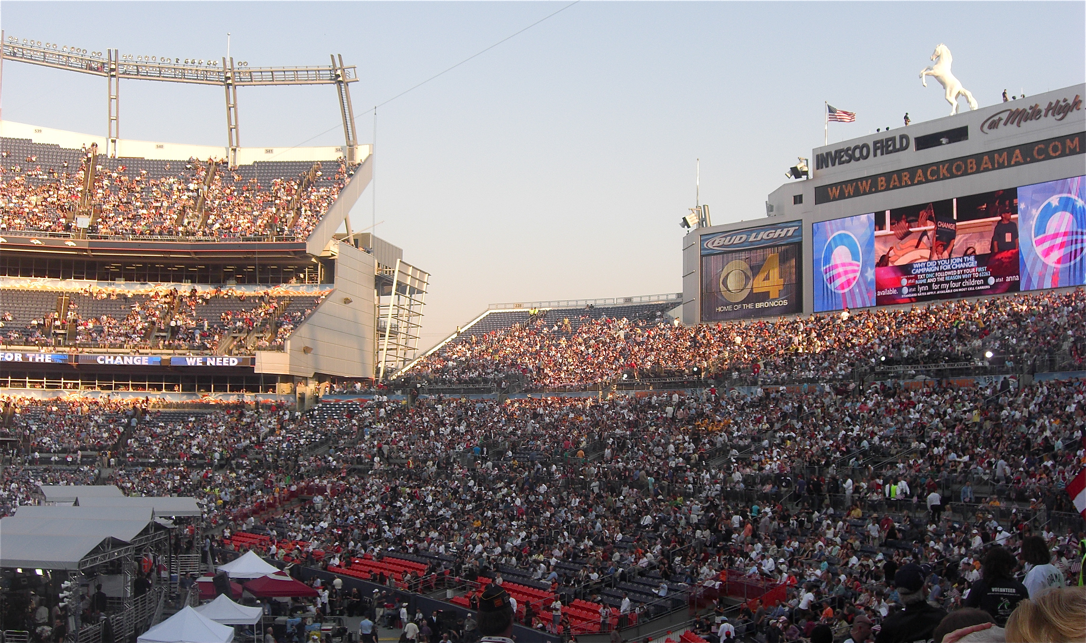 Invesco Field at Mile High in Denver, Colorado as it appeared during the final day of the 2008 Democratic National Convention.